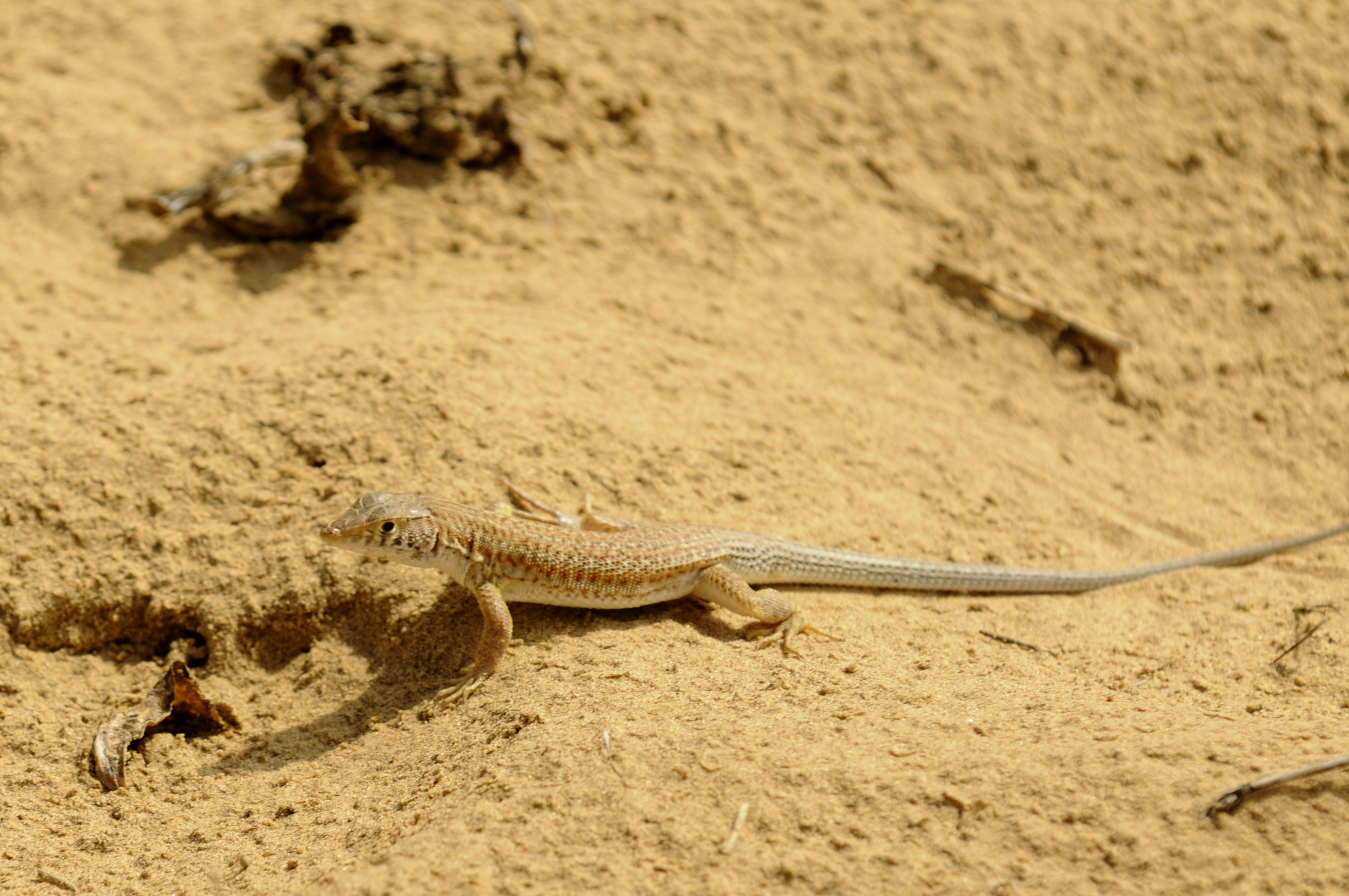 Indian Fringe-toed Lizard at Desert National Park, Rajasthan, India